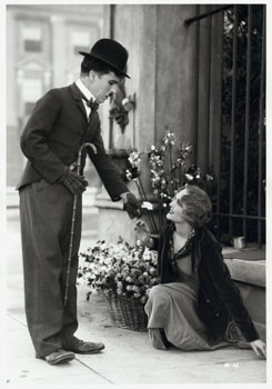 Publicity still for Charlie Chaplin's 1931 film City Lights. The source code in the bottom right corner confirms that this was a publicity still. Such images were taken on set during filming, or as part of an organized photo-shoot, by a studio photographer. They were then disseminated to the media and the public to promote the film (see Film still).